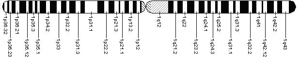 Human Chromosome 1 with segment labels